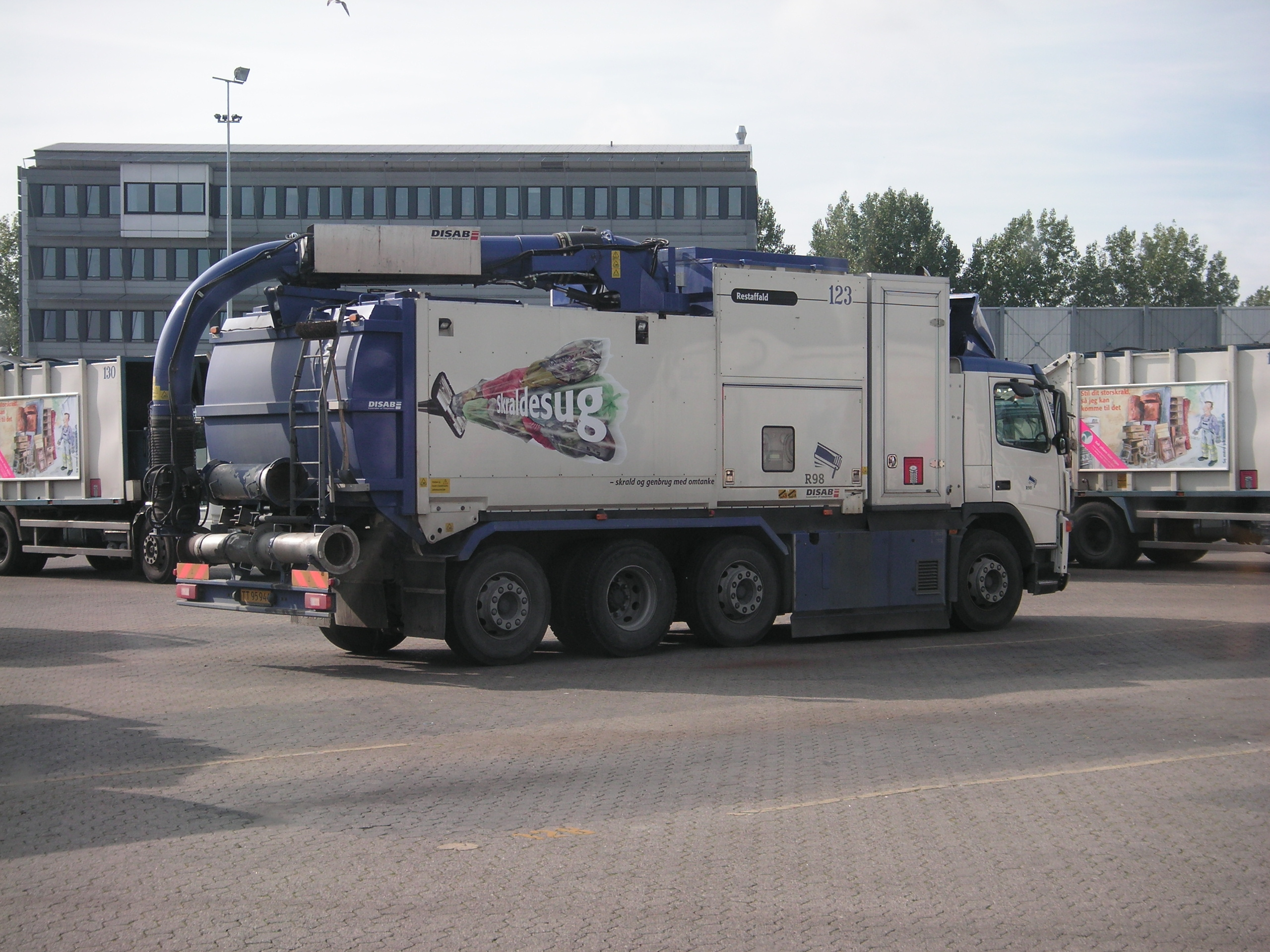 Vacuum waste collection. The tube at the top fits a tube hidden under a "manhole" cover in the sidewalk, and the waste (household waste or similar) is sucked into the truck from a waste tank placed anywhere suitable in the block or building.